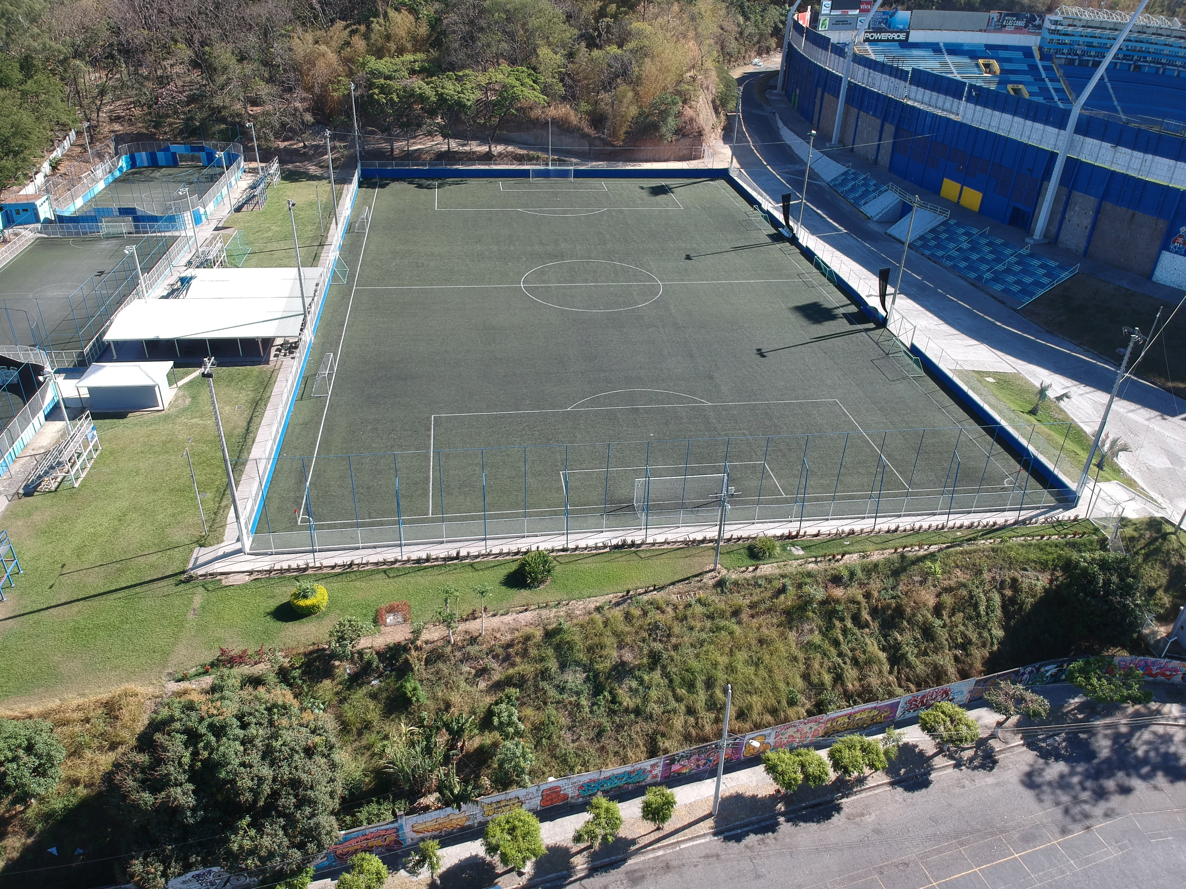 Cuscatlan Stadium